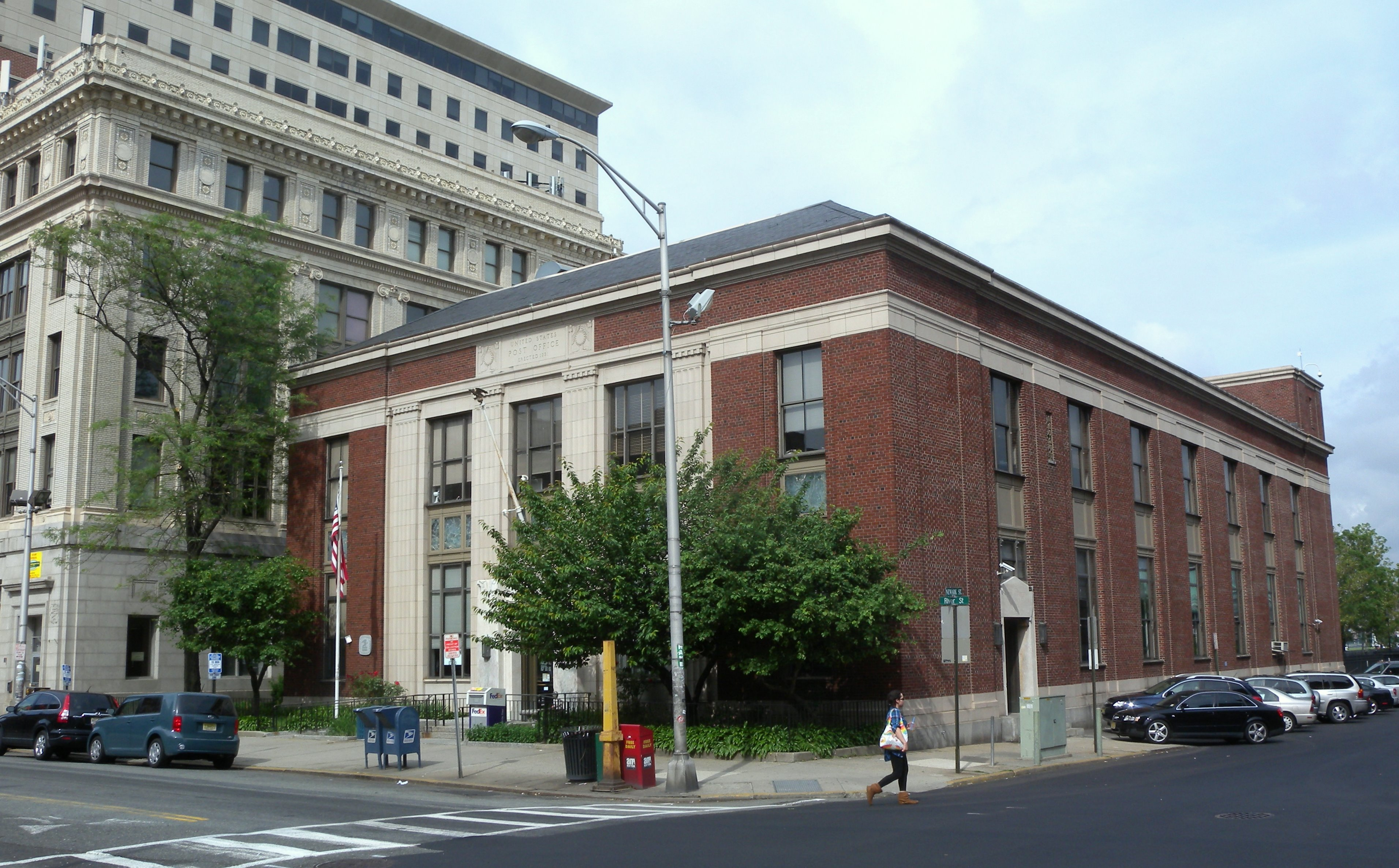 Looking east at Hoboken Post Office on a cloudy afternoon.